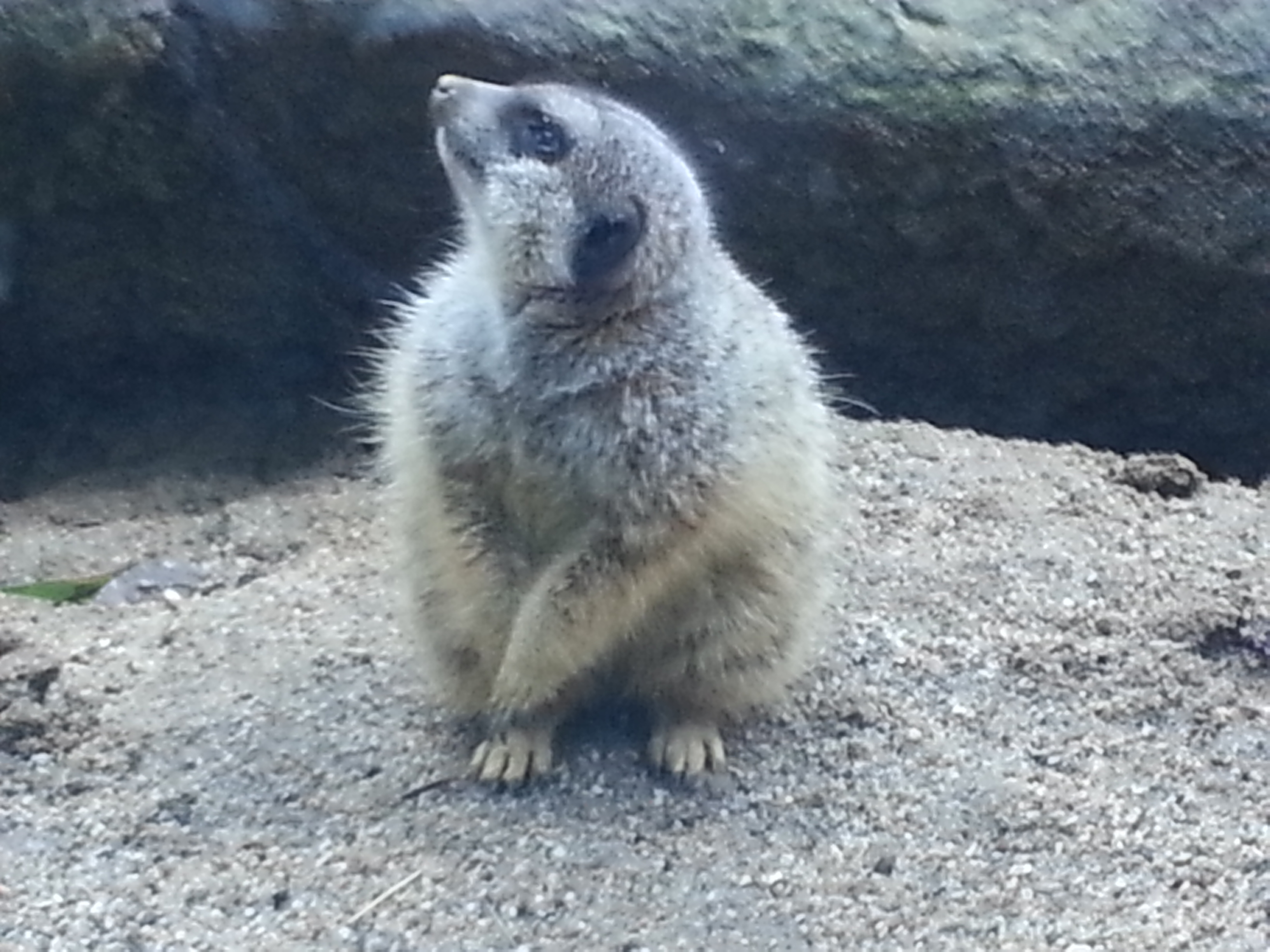 A meerkat at Happy Hollow Zoo in San Jose, CA